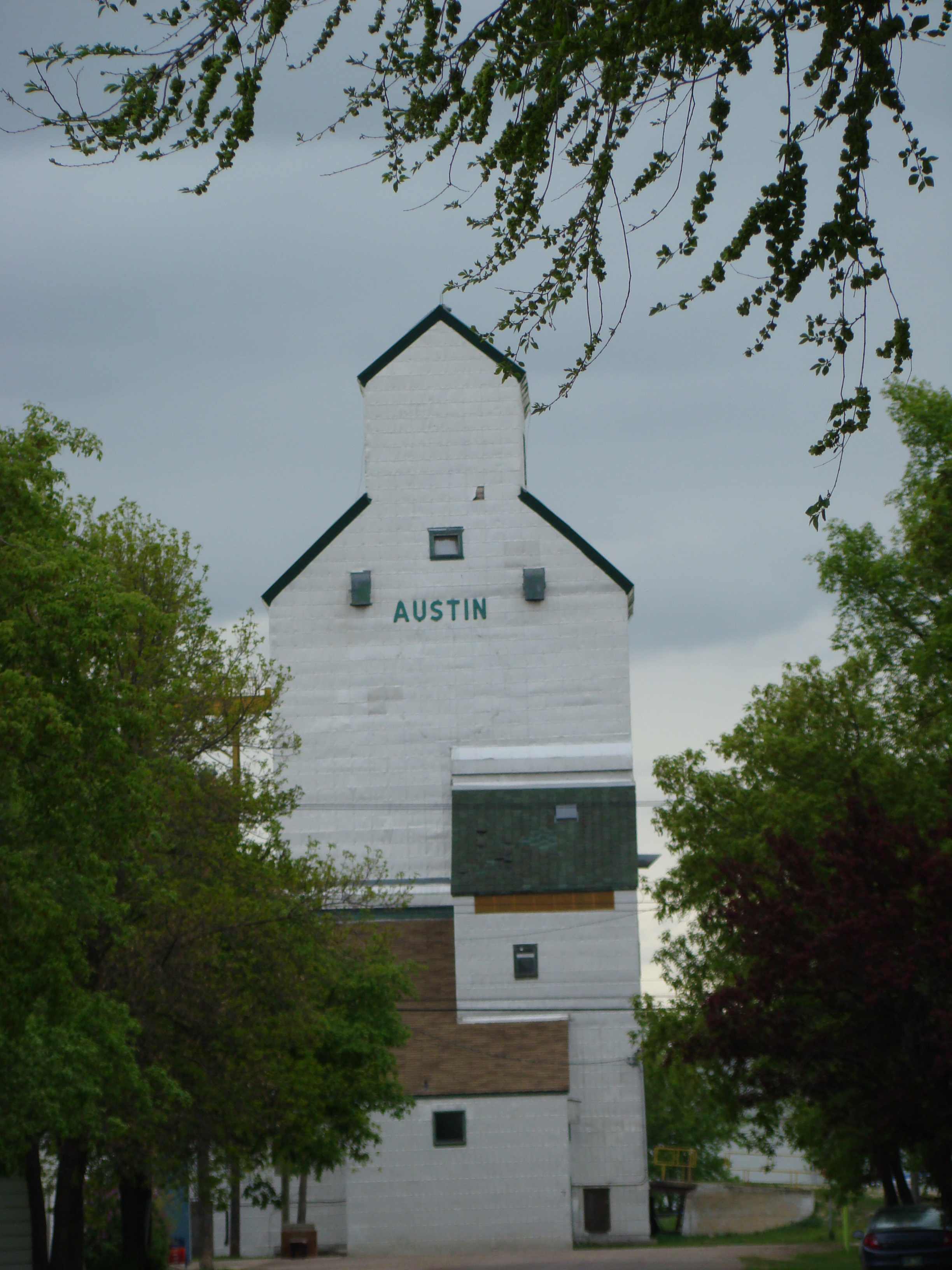 Austin in Summer 2009 Manitoba Canada